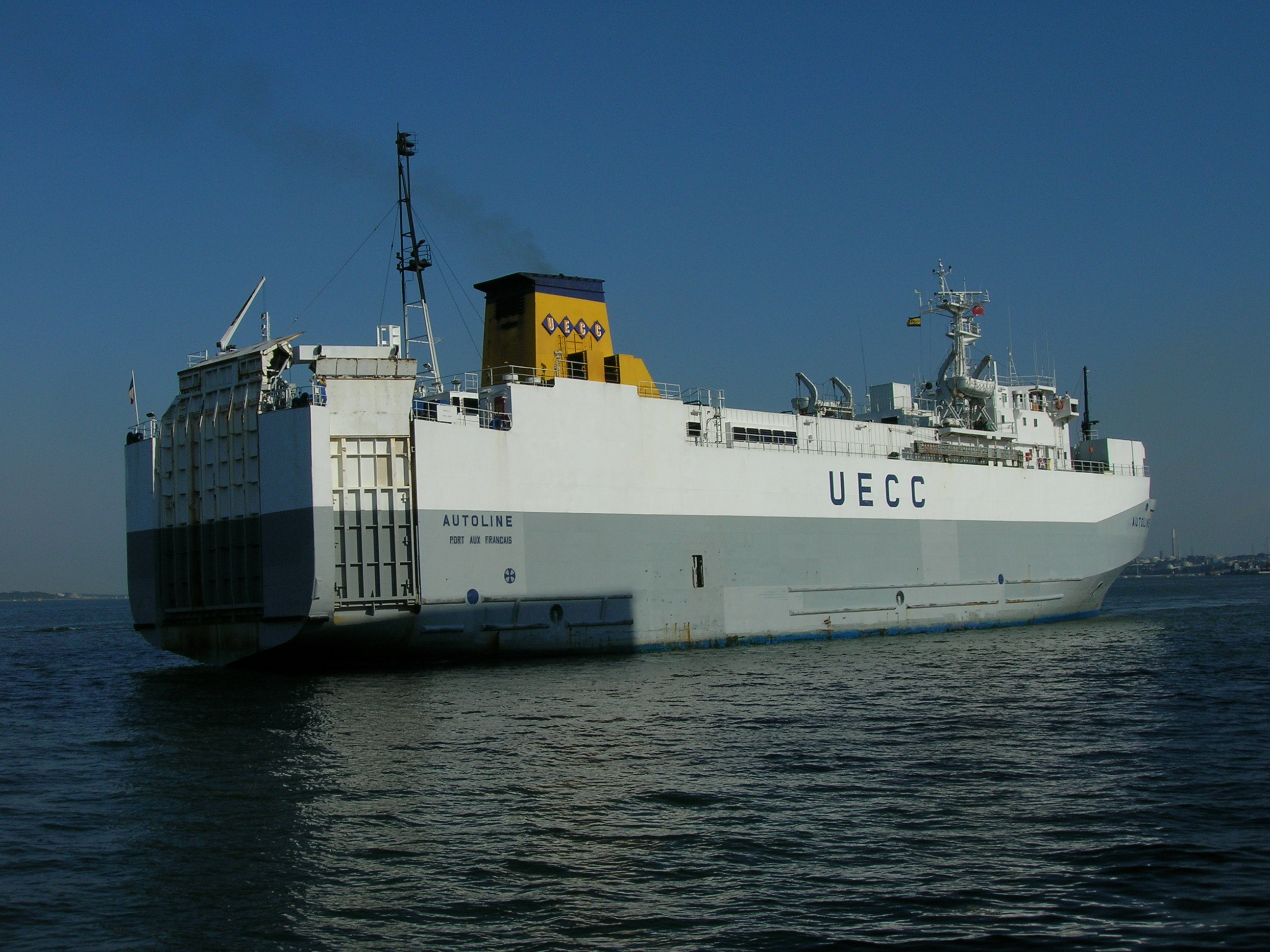 The Autoline car carrier backing up to her berth, Southampton harbour. IMO Number: 8200565 MMSI Number: 255802840 Callsign: CQOO Length: 100 m Beam: 17 m